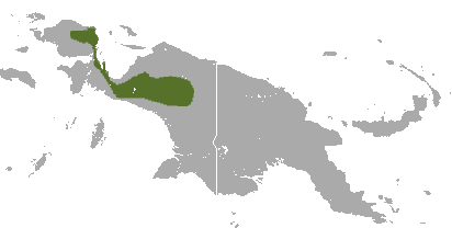 Red-bellied Marsupial Shrew (Phascolosorex doriae) range